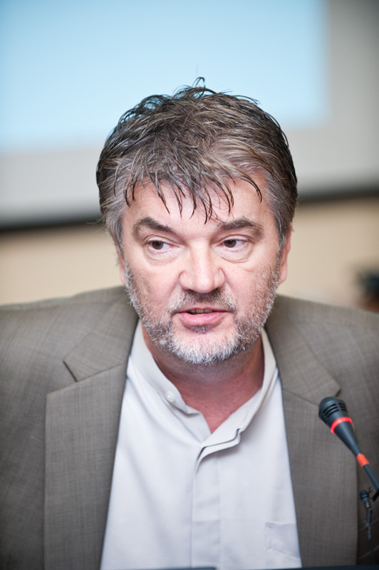 Peter Sloot